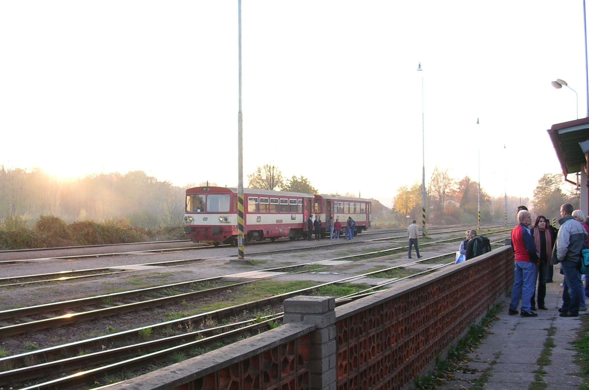 Doudleby nad Orlicí, the Czech Republic. A train station.